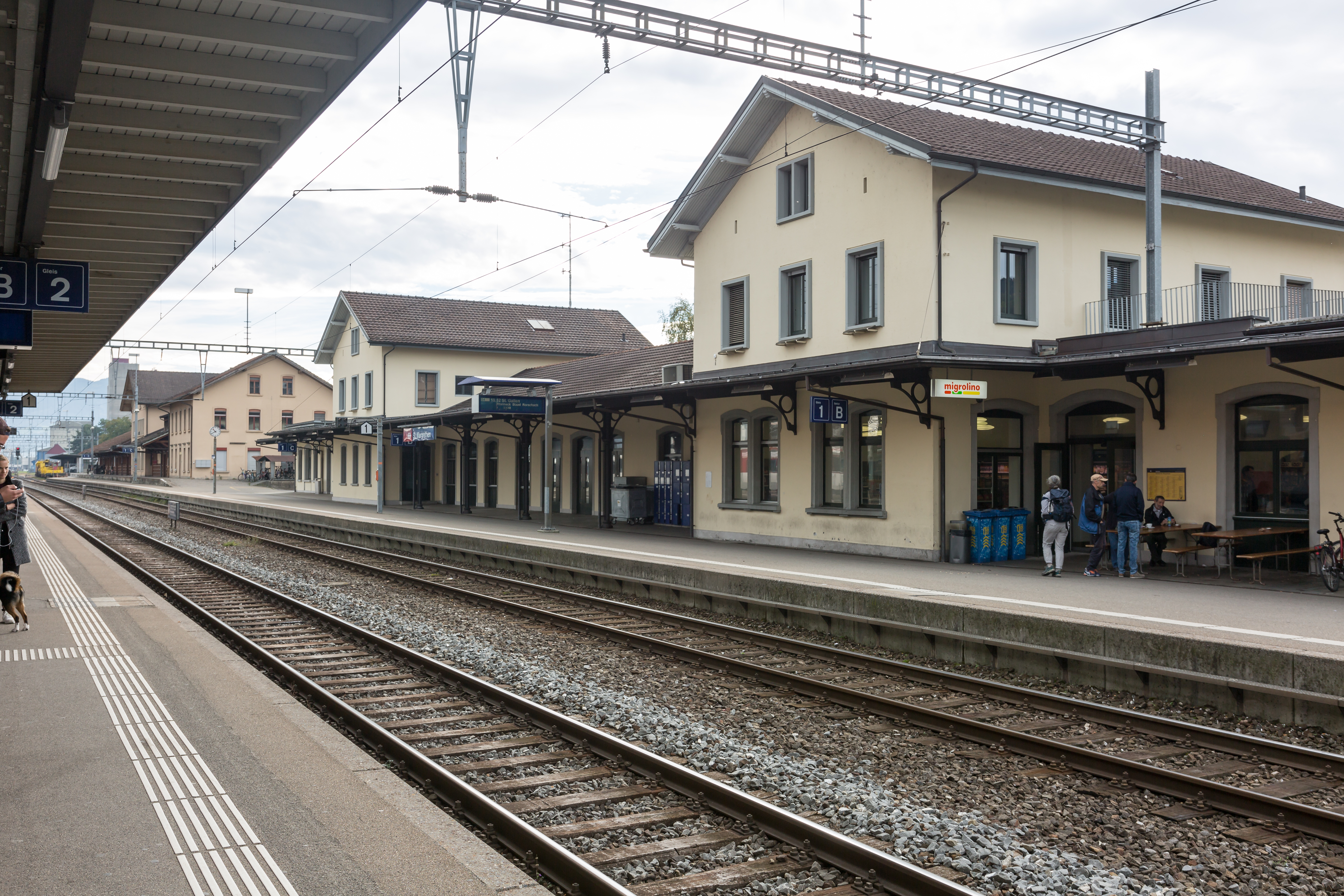 St. Margrethen during WikiCon 2018